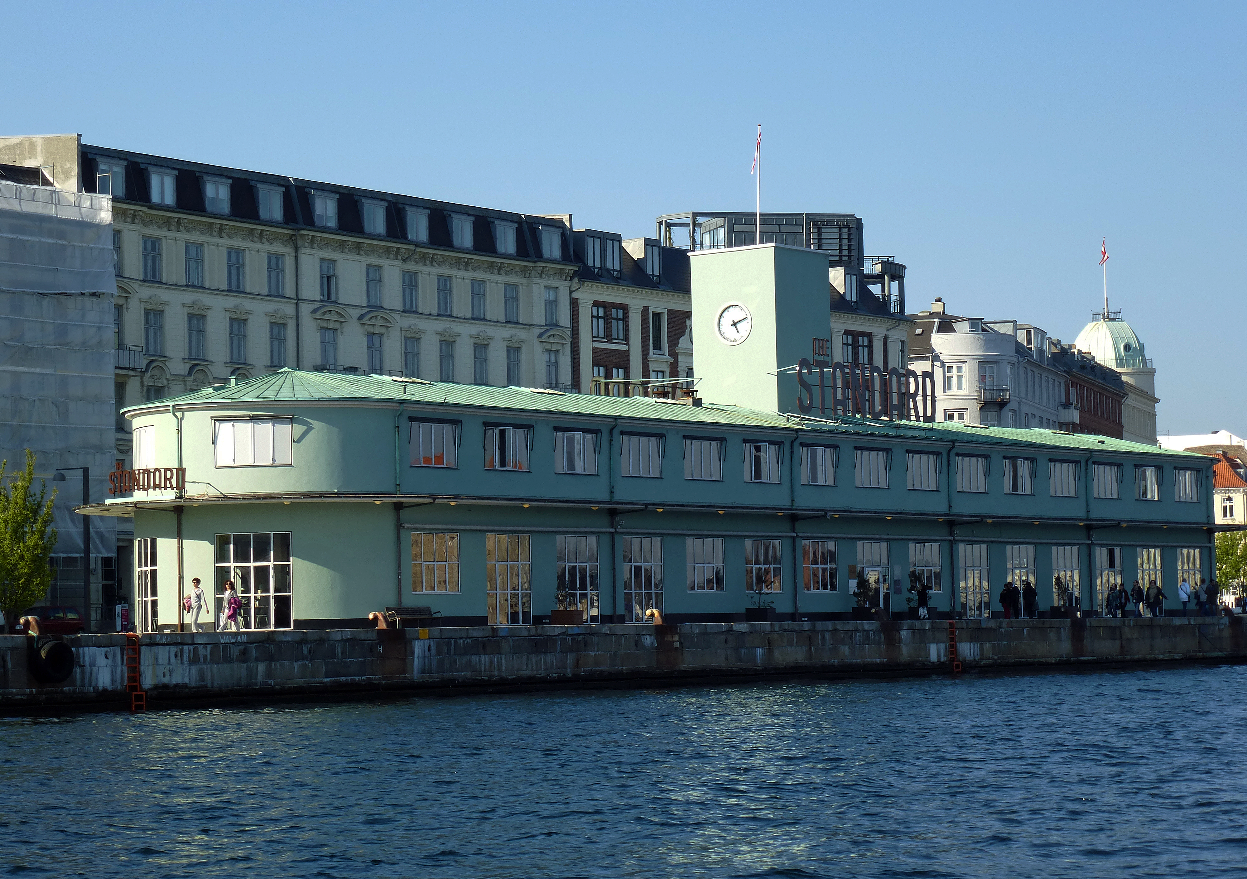 The Standard in Copenhagen. The complex includes the Guide Michelin star-awarded restaurant "The Studio".